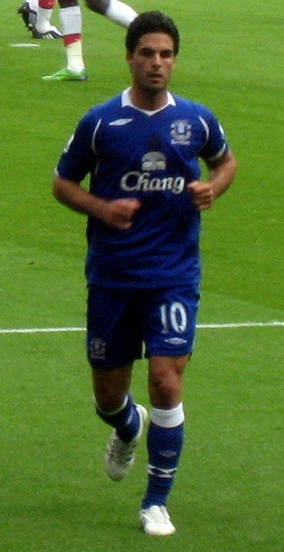 Mikel Arteta of Everton FC